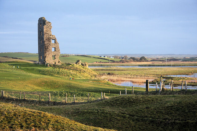 Bough Castle, Lahinch This former tower house is situated on a rocky knoll above the River Inagh, close to O'Brien's Bridge. Between the roadway, from where the photo was taken, and the castle, is a fairway of Lahinch golf course.